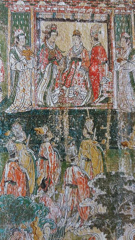 Fresco from the Temple of Enlightenment: detail from the Life of Buddha, shows the emperor and empress. Kaop'ing, Shansi.